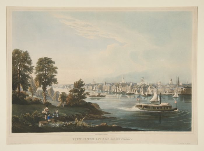 "View of the City of Hartford, Connecticut," aquatint printed in sepia, by the British artist and printer William Havell. 14 3/8 in. x 20 1/4 in. Mabel Brady Garvan Collection, Yale University Art Gallery, Yale University, New Haven, Conn.